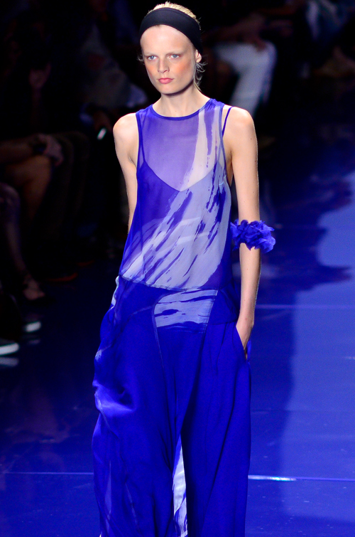 A model walks the runway at the Vera Wang Spring/Summer 2014 show at New York Fashion Week, September 2013.